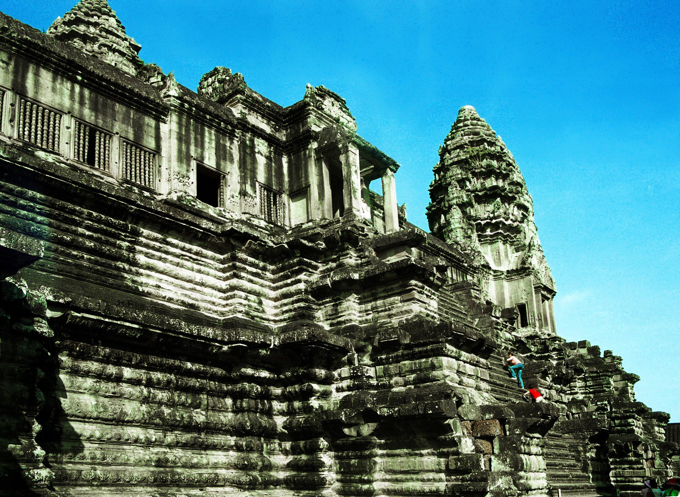 Angkor Wat third tier